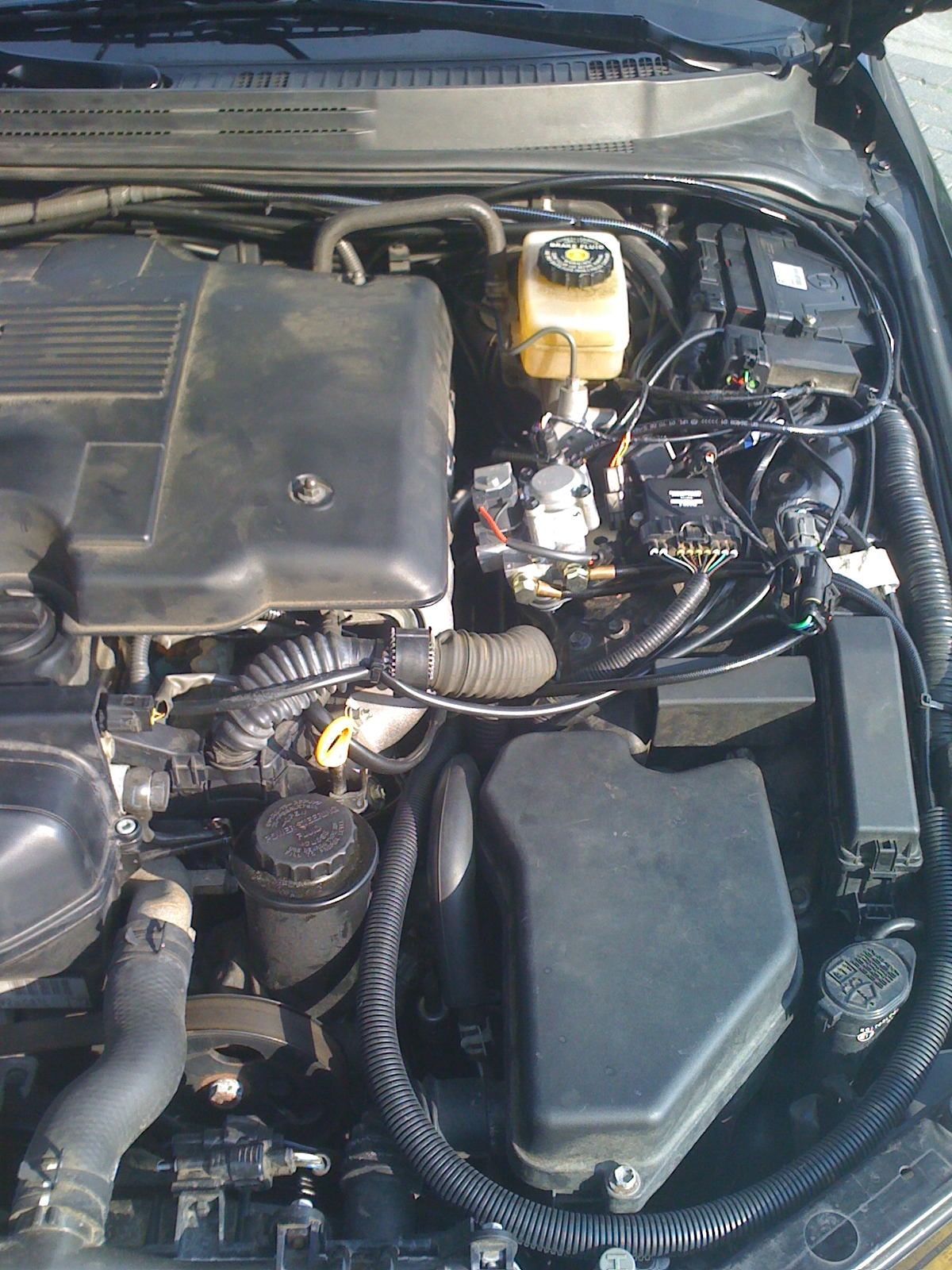 Autogas liquid injection system by Vialle, installed in a Lexus IS 300 station wagon